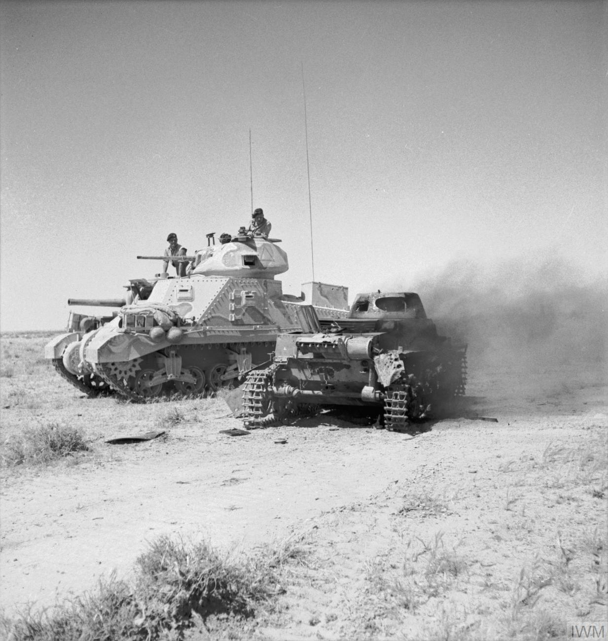 A British M3 Grant tank next to a knocked out a German Panzerkampfwagen I light tank on 6 June 1942 in North Africa.